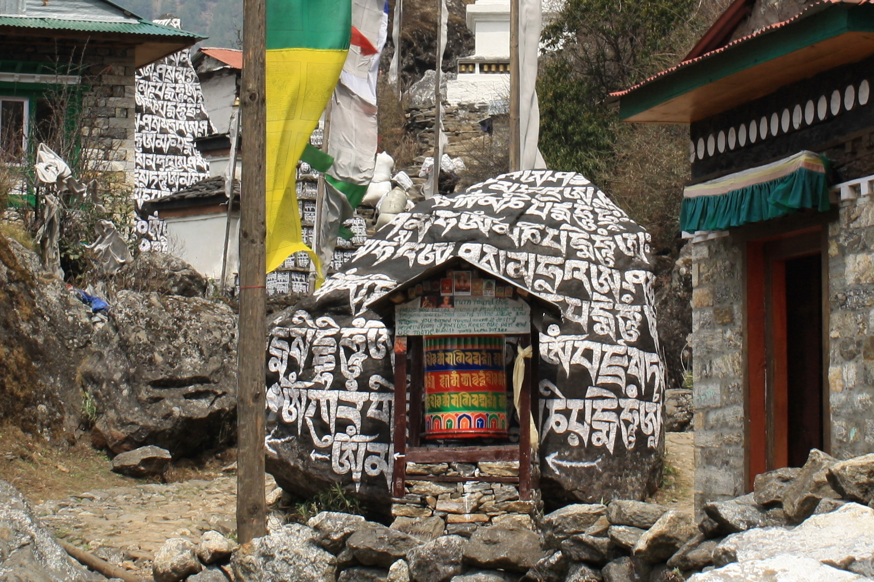 Mani stone near Phakding village in the trail from Lukla to Namche Bazaar - Nepal